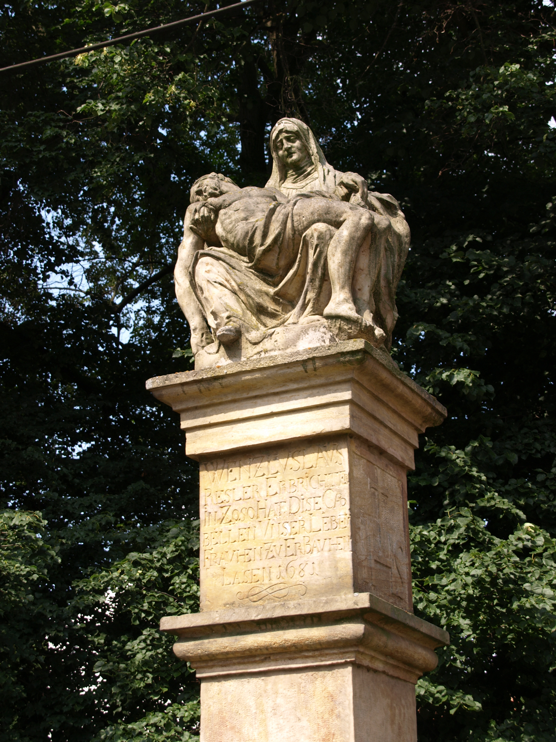 Pillar depicting the Pietà in Sázava u Lanškrouna